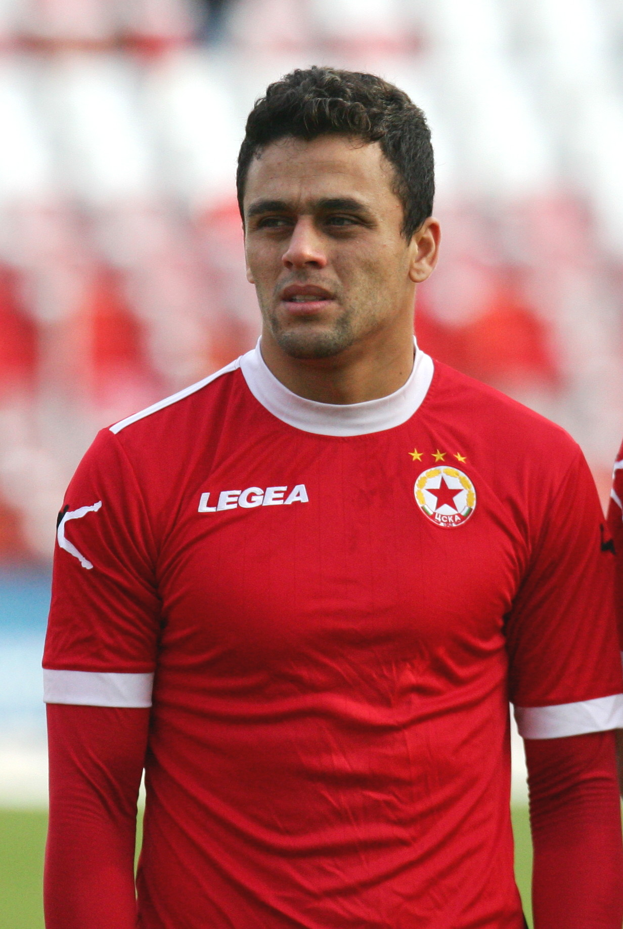 Marcio de Souza Gregório Júnior (born 14 May 1986 in Volta Redonda), commonly known as Marcinho, is a Brazilian footballer who plays as an attacking midfielder for CSKA Sofia in the Bulgarian A Football Group.